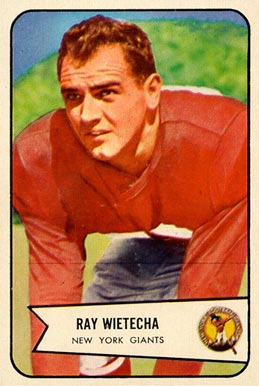 American football player Ray Wietecha on a 1954 Bowman card.